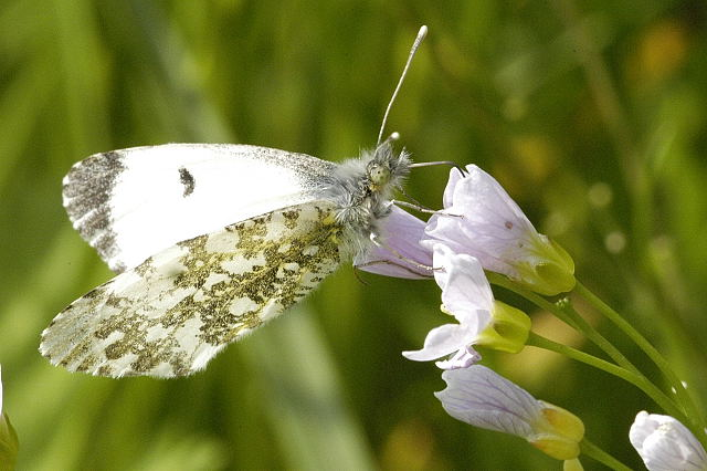 Picture taken in Commanster, Belgian High Ardennes . Species: Anthocharis cardamines female